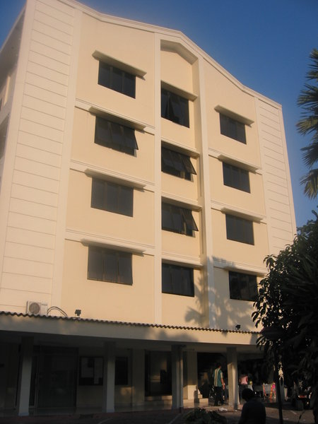 Main Building of Jakarta Theological Seminary